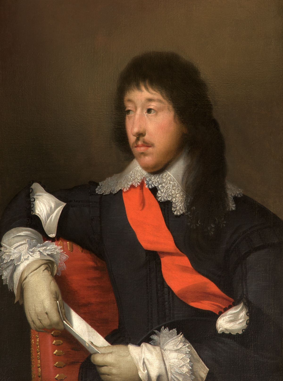 A 76.2 x 63.5 cm oil-on-canvas portrait painting of James Stanley, 7th Earl of Derby by Cornelis Janssens van Ceulen held at Tabley House